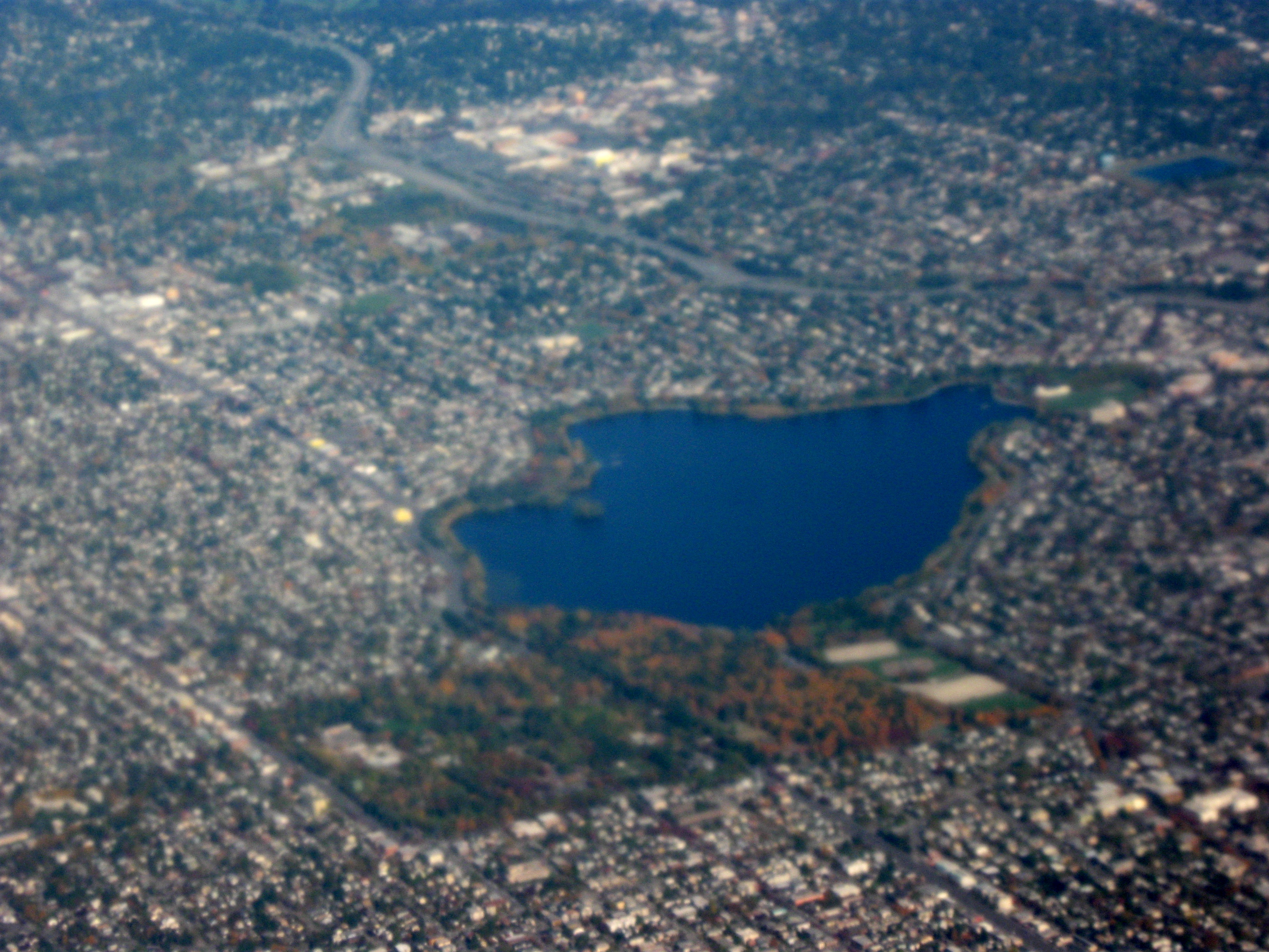 Green Lake in Seattle, facing northeast. Woodland Park is on its near corner, and highway I-5 snakes behind it. The buildings at the top center are Northgate Mall, and those far left and above center are Oak Tree Village Shopping Center. Taken by myself from a commercial airliner window.